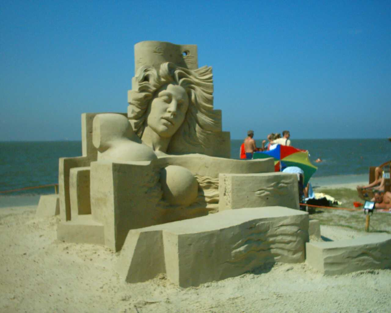 Sand Art from Pavel Zadanyuk (Moscow) at Sand Art Festival in Tossens (Germany)